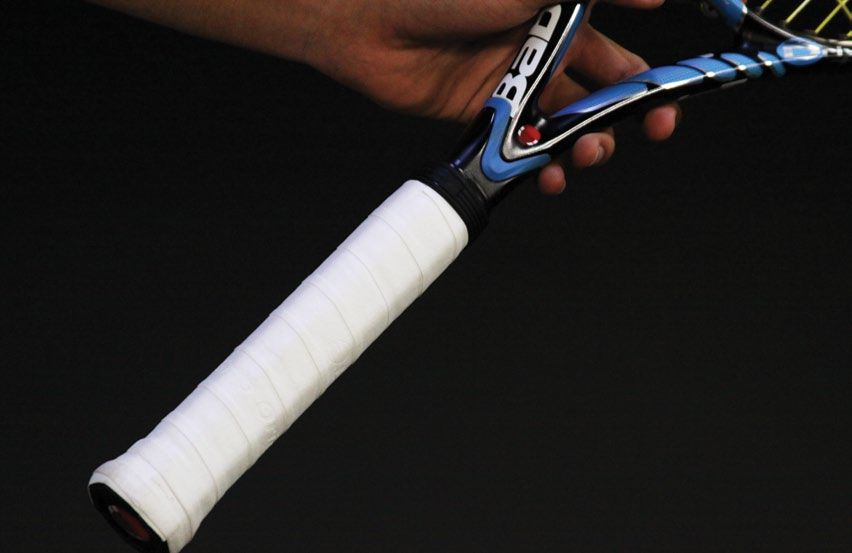 Tennis racquet handle